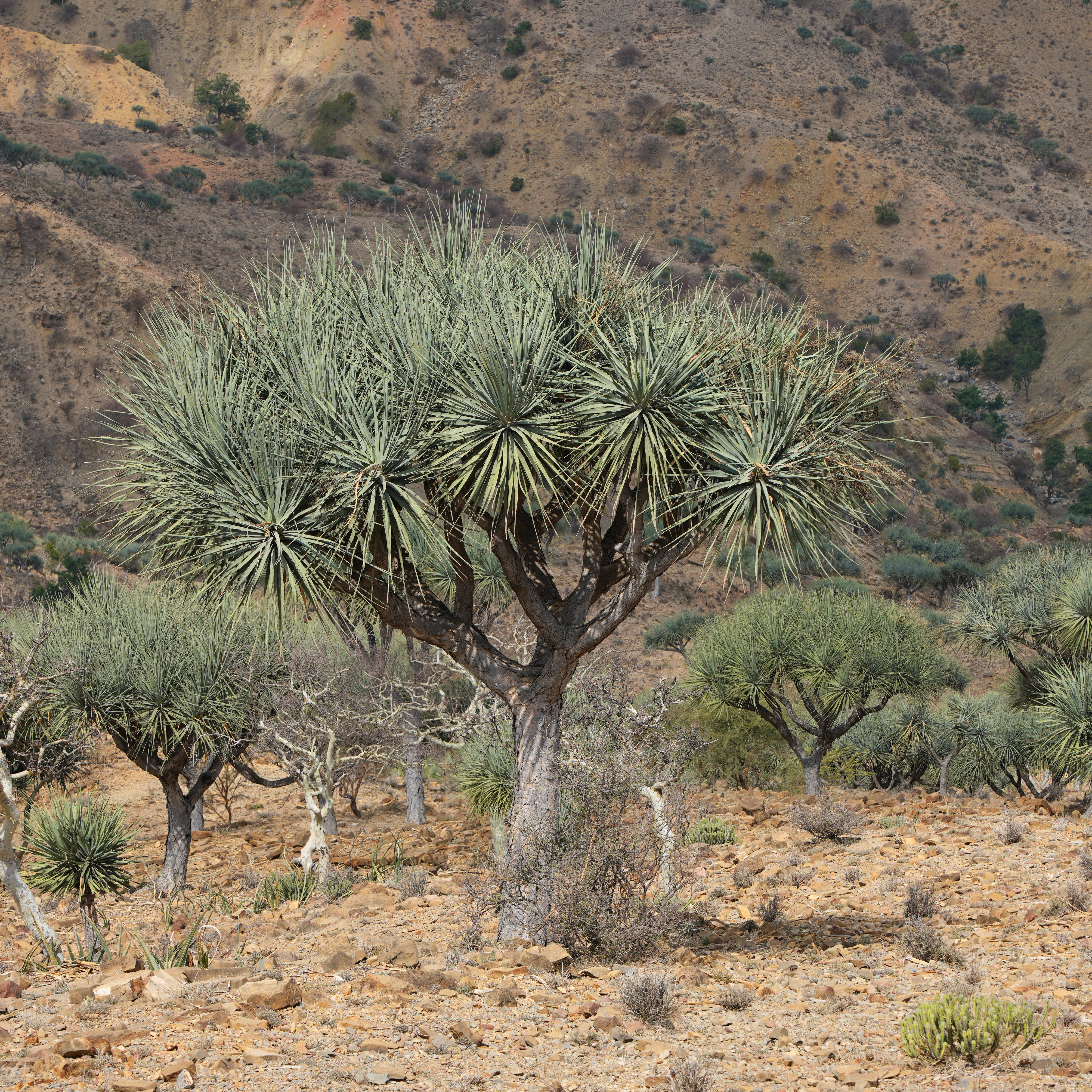 Surroundings of Abala town, Afar Region, Ethiopia